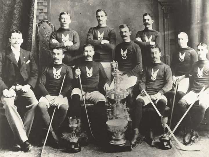 The Montreal Hockey Club (Montreal Amateur Athletic Association) win the first Stanley Cup. The large trophy behind the Stanley Cup is the Amateur Hockey Association of Canada championship trophy. Sitting: Harry Shaw, George Lowe, Tom Paton, James Stewart, Archie Hodgson, Alex Kingan, Billy Barlow Standing: Alex Irvine, Haviland Routh, Allan Cameron